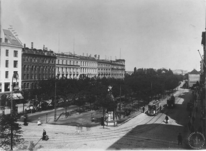 Nørre Voldgade, Copenhagen.